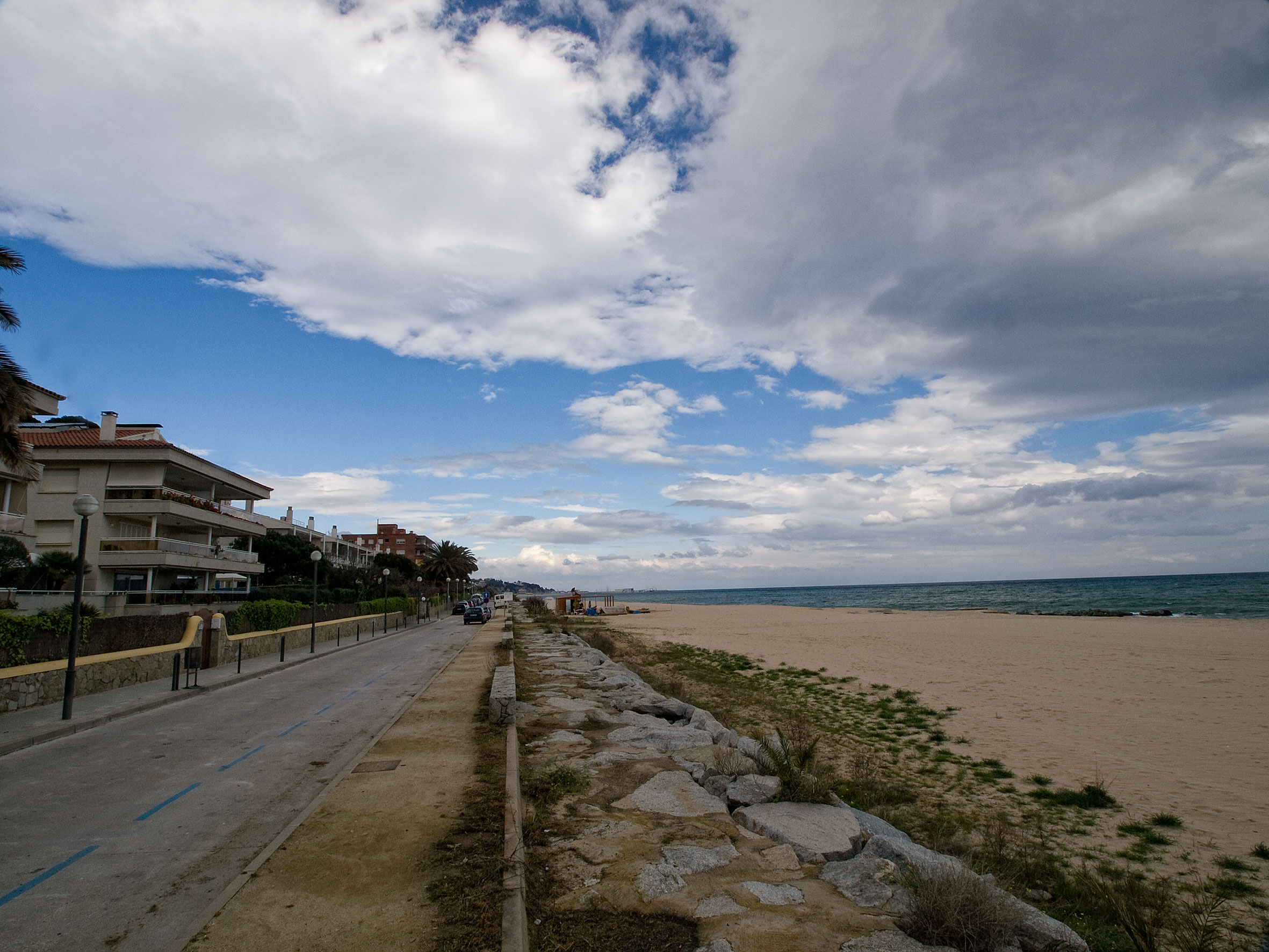 Caldes d'Estrac beach (Catalonia, Spain)